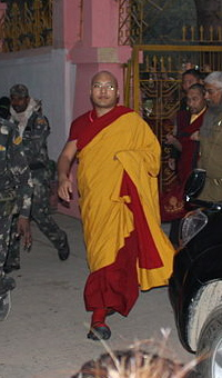 The 17th Karmapa Ogyen Trinley Dorje in Bodh Gaya, 2012